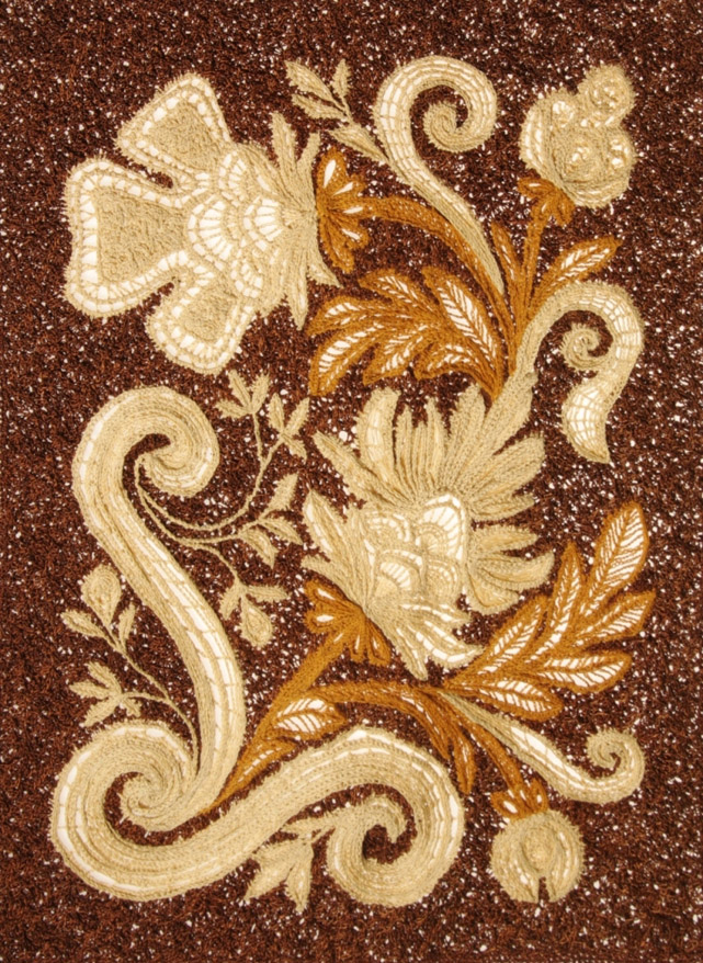 "May Flowers". Lace made using a patented process.